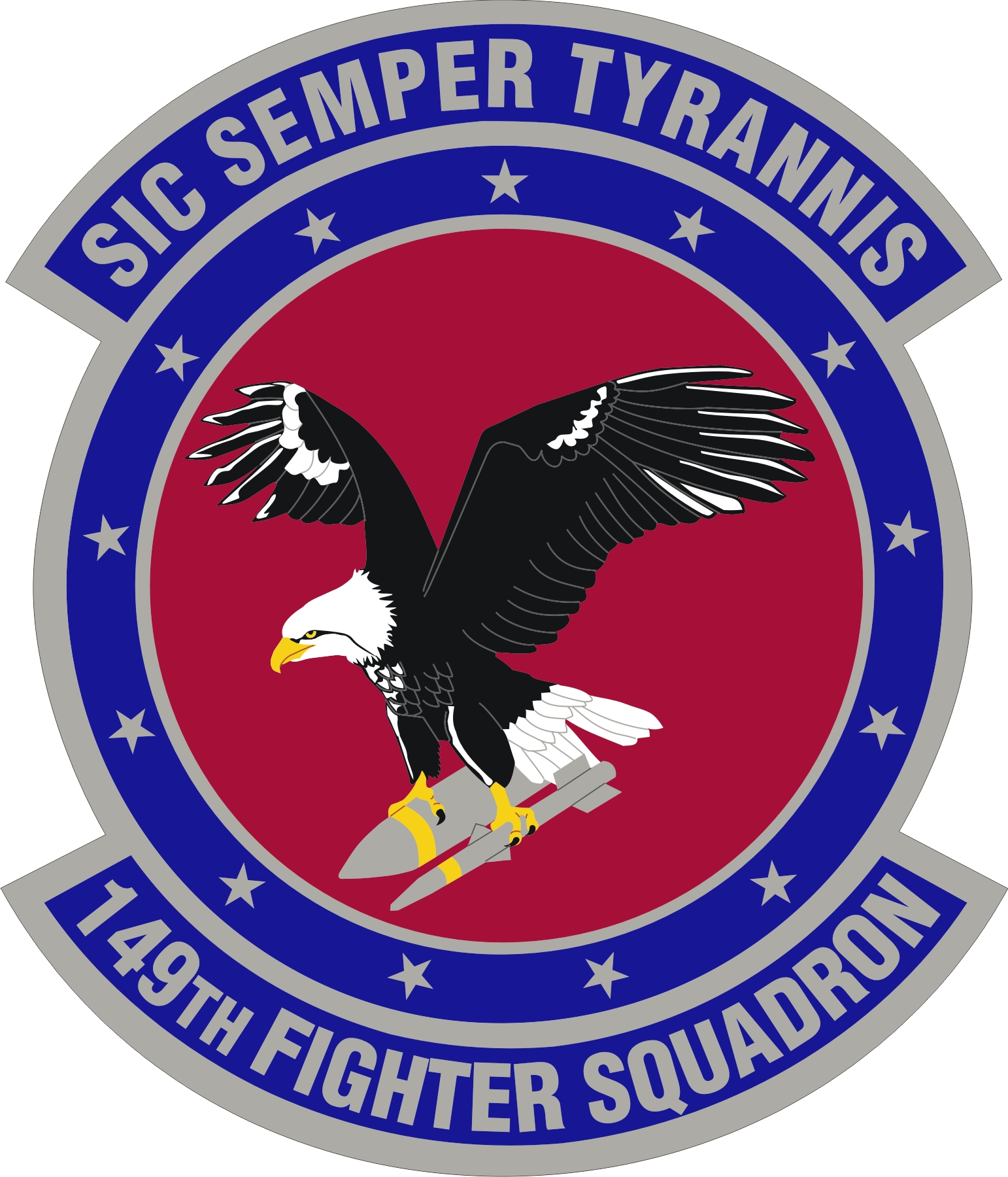 Emblem of the 149th Fighter Squadron.